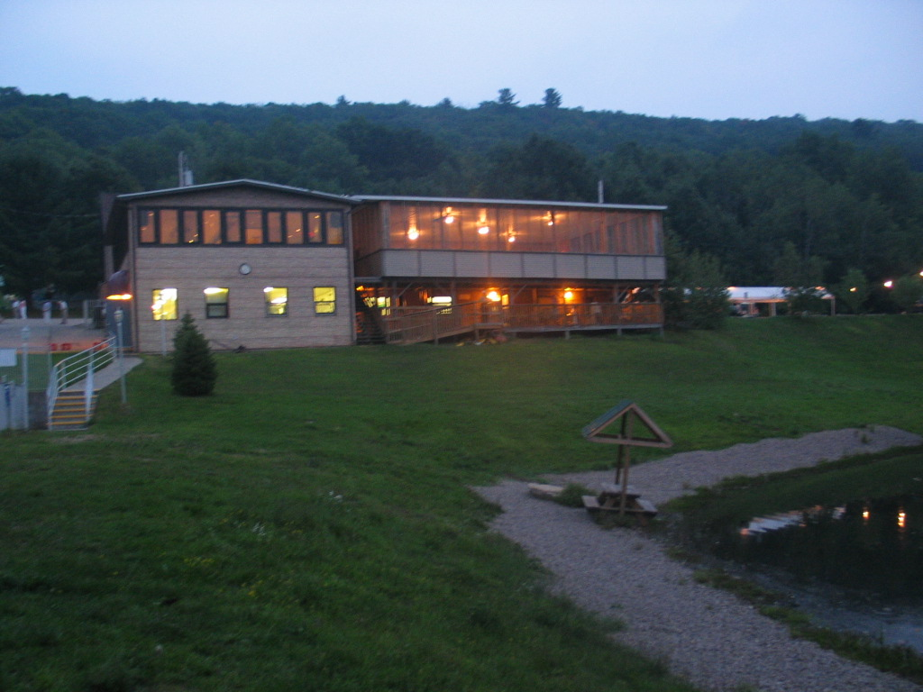 The club building of the Paradise REsort on a background of CAtskills Mountains